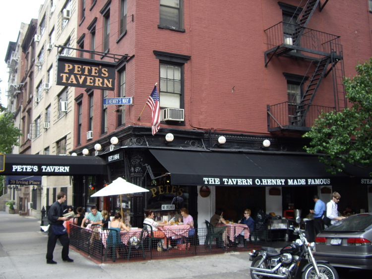 Pete's Tavern, on Irving Place, Manhattan, New York City, New York State